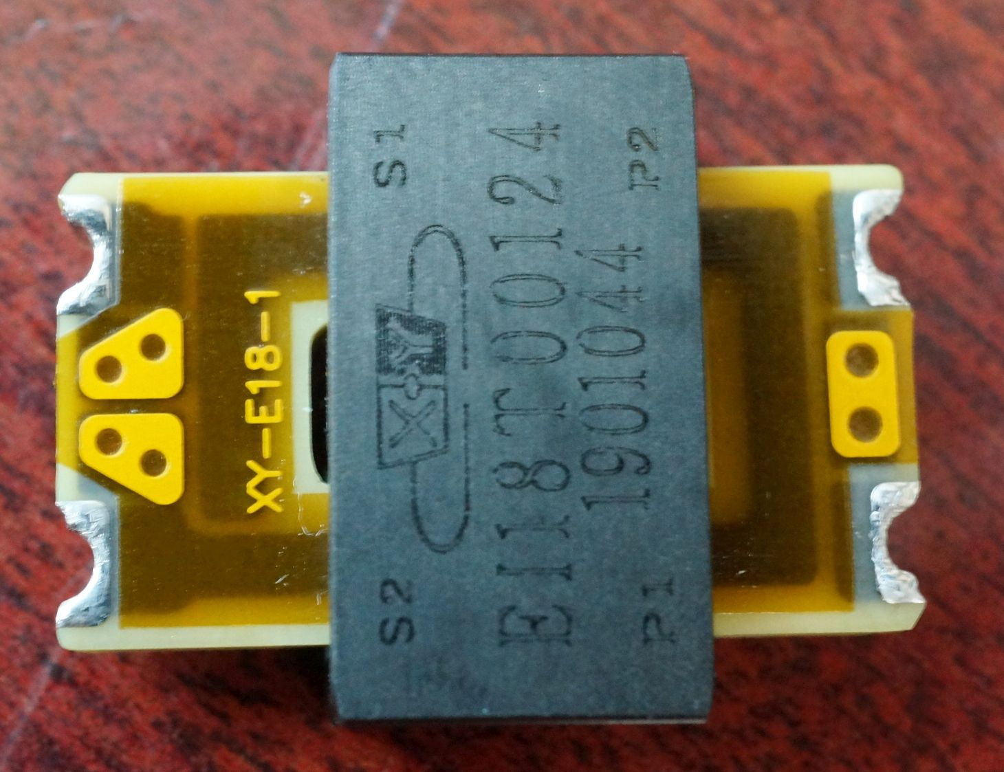 Custom planar transformer - Top View